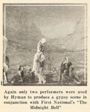 Prologue from Hyman in Exhibitors Trade Review